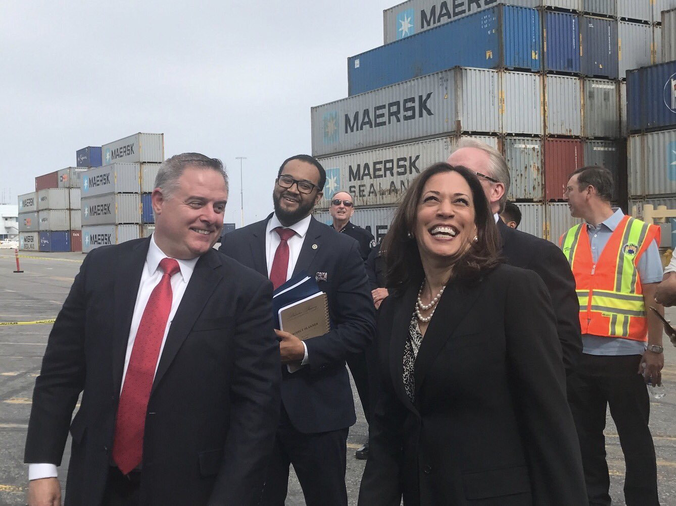 Just finished meeting with officials at the @PortofLA - 40% of what moves throughout our nation comes through this port.